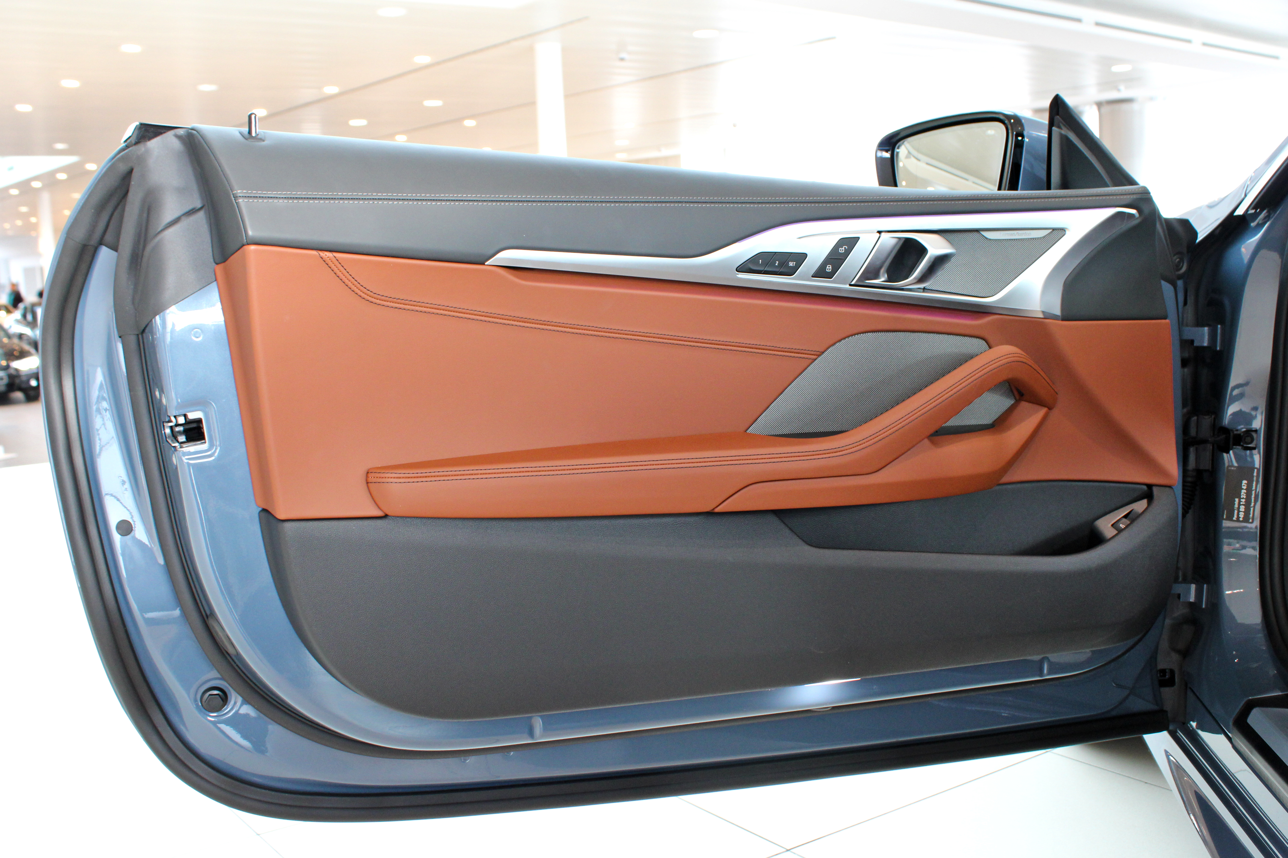 BMW M850i Coupe in Stuttgart-Vaihingen